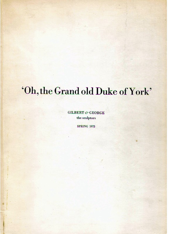 Oh, the Grand old Duke of York. Artist book. Groninger Museum identifier : 1975.0230.